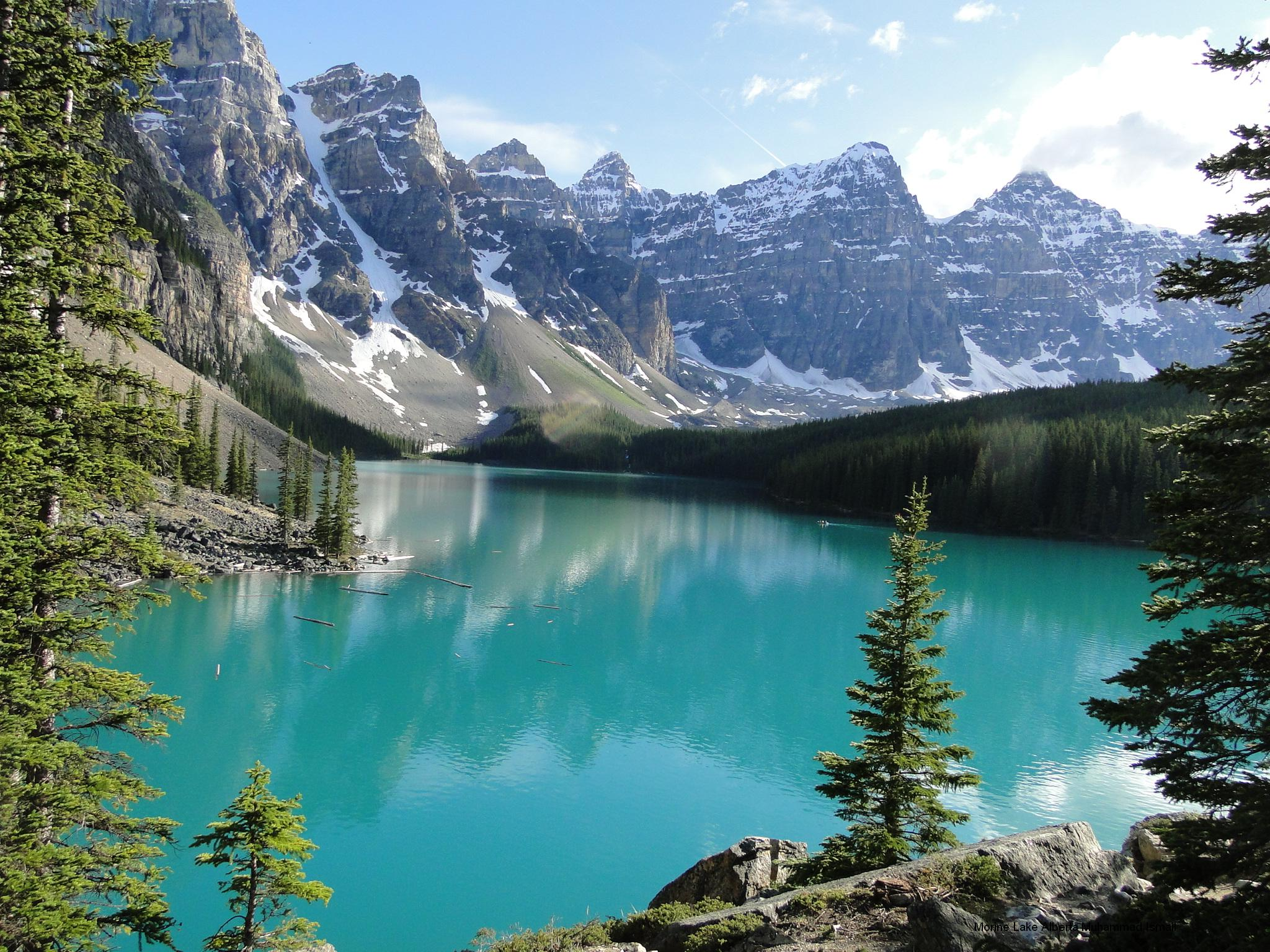 Moraine Lake is a glacially-fed lake in Banff National Park, 14 kilometres (8.7 mi) outside the Village of Lake Louise, Alberta, Canada. It is situated in the Valley of the Ten Peaks, at an elevation of approximately 6,183 feet (1,885 m). The lake has a surface area of .5 square kilometres (0.19 sq mi). The lake, being glacially fed, does not reach its crest until mid to late June. When it is full, it reflects a distinct shade of blue. The color is due to the refraction of light off the rock flour deposited in the lake on a continual basis.